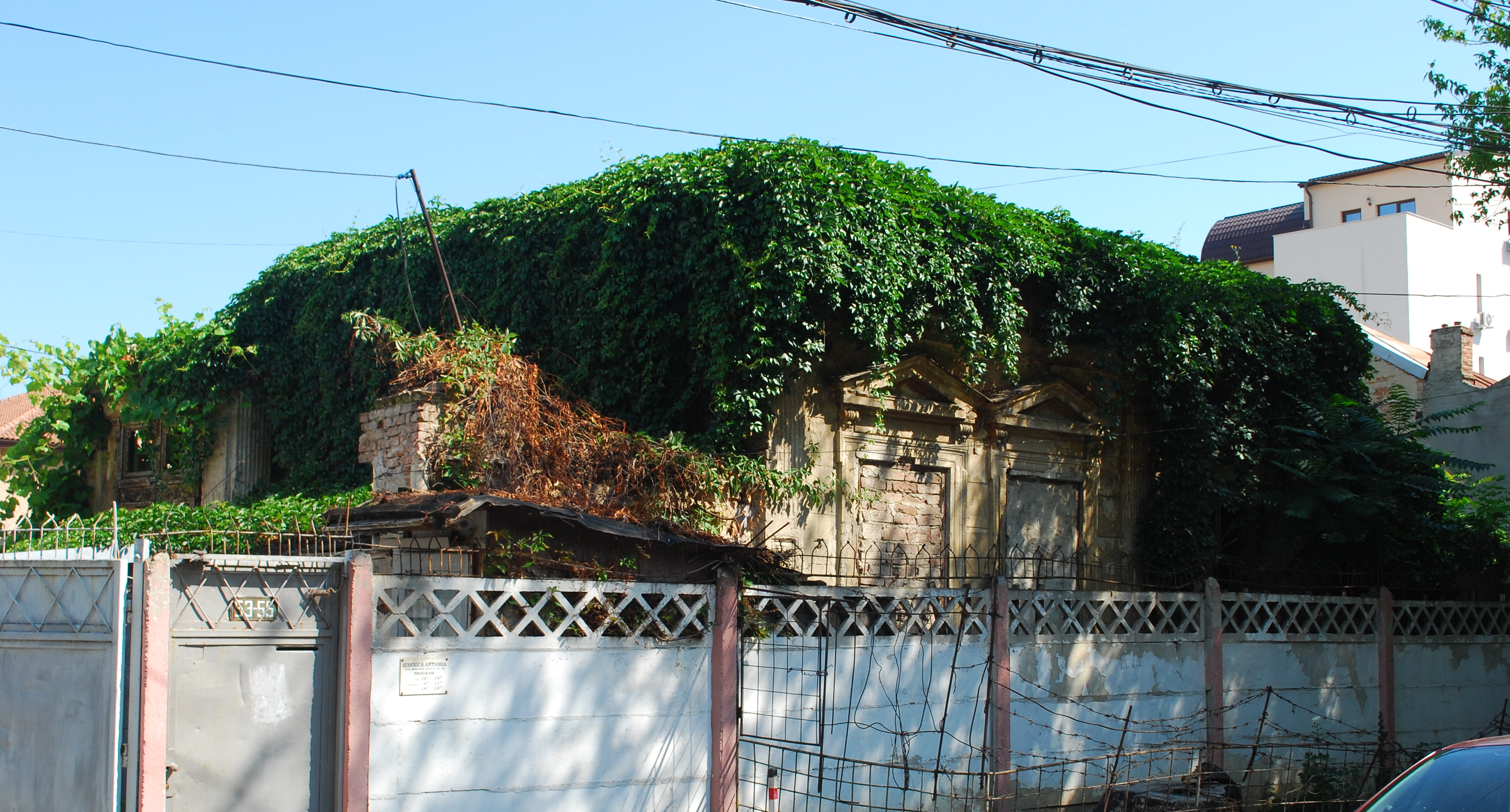 Cabman house in 53-55 Episcopul Radu street, Bucharest, RomaniaRomână: Casă de birjar în strada Episcopul Radu, nr. 53-55, București, România